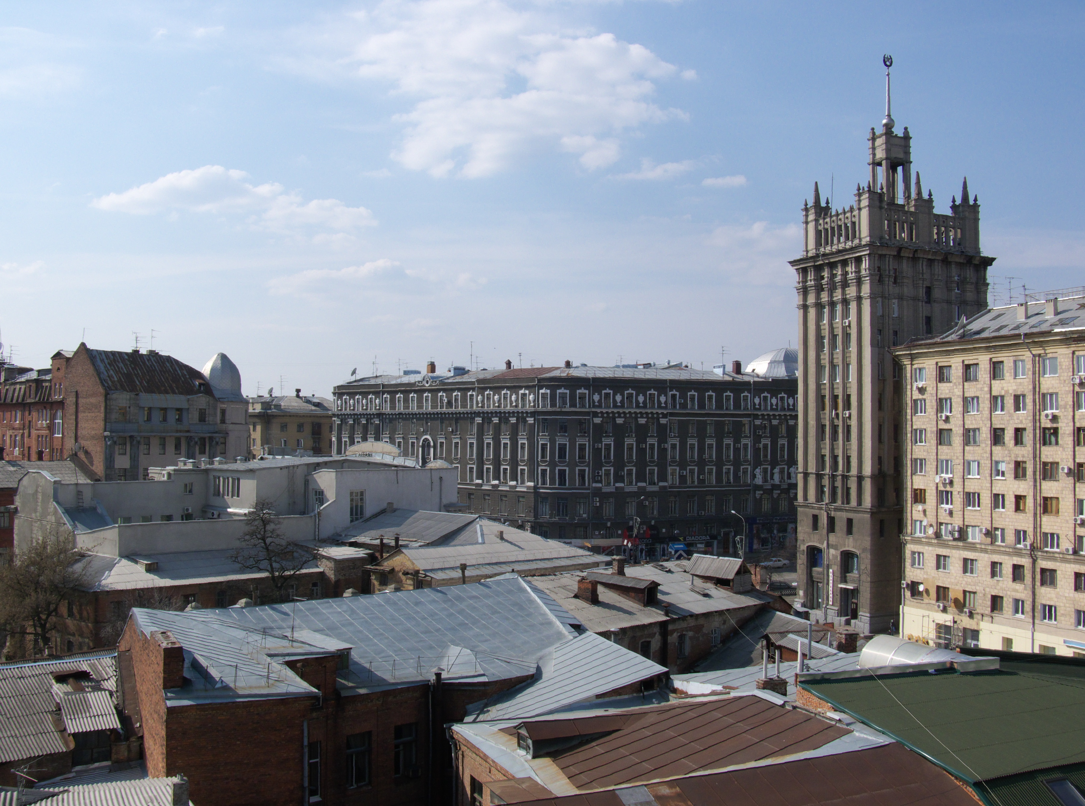 Kharkov center roofs